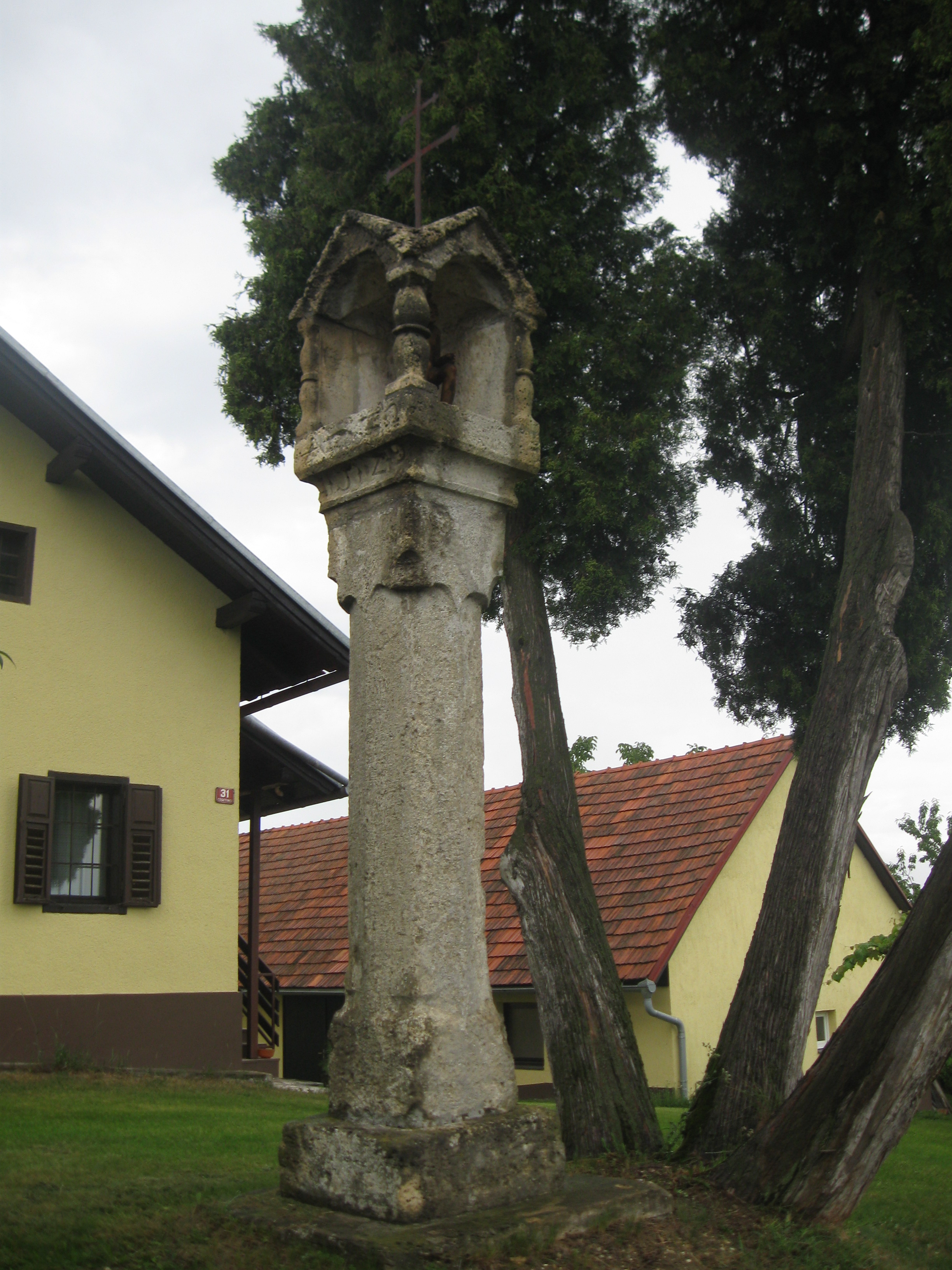 Calvary erected in 1529 during or after an outbreak of plague in Cogetinci.